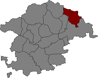 Location of Molló in Ripollès